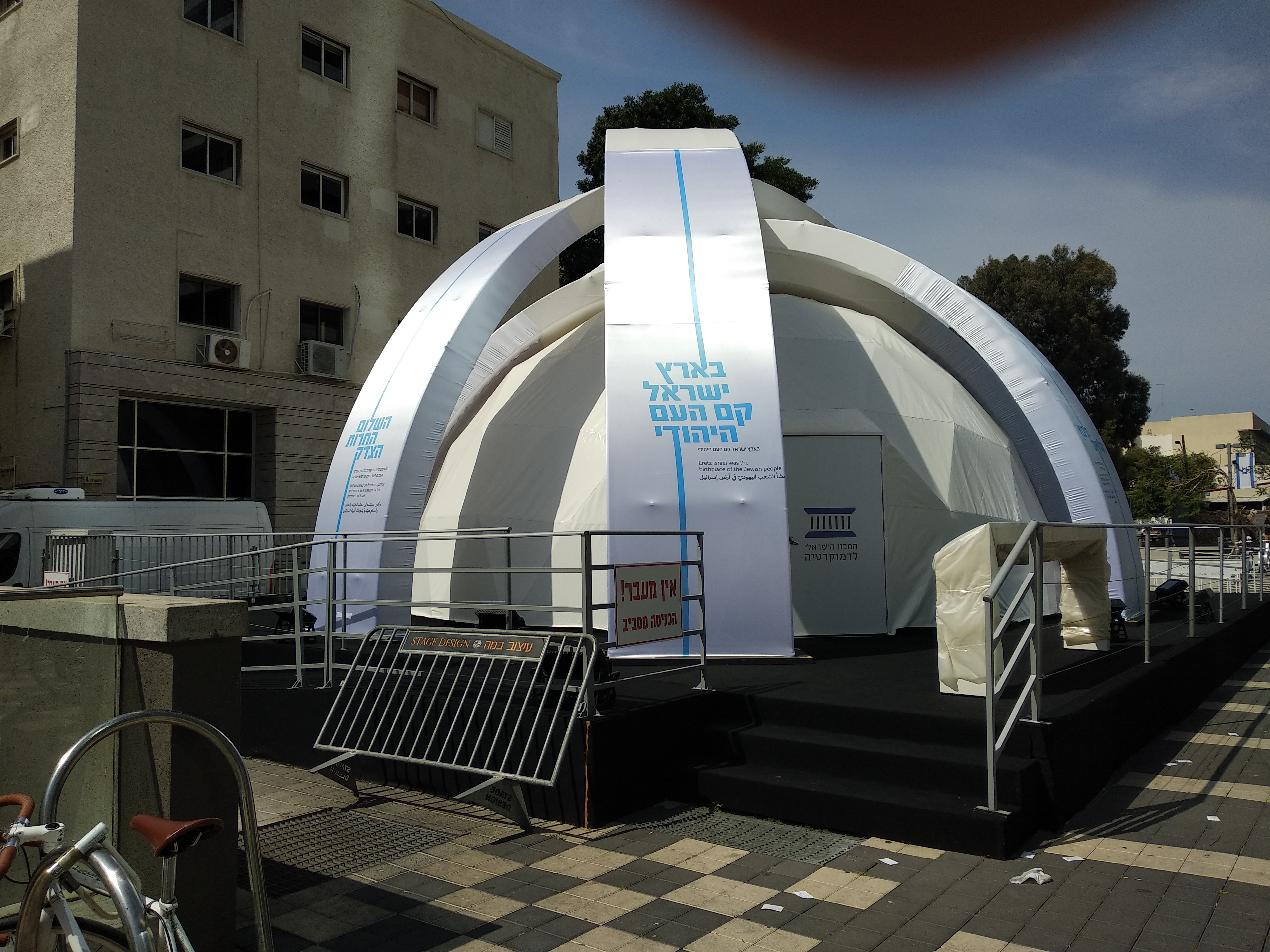 Democracy gate, Tel Aviv